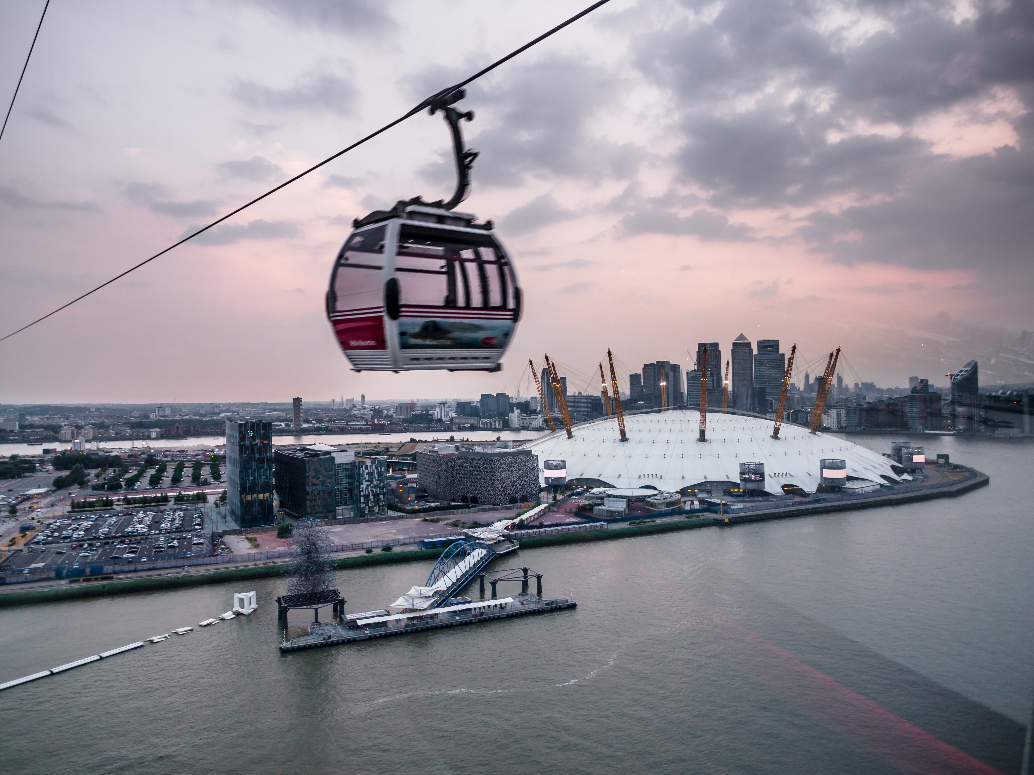 View of the O2 Arena and the Docklands